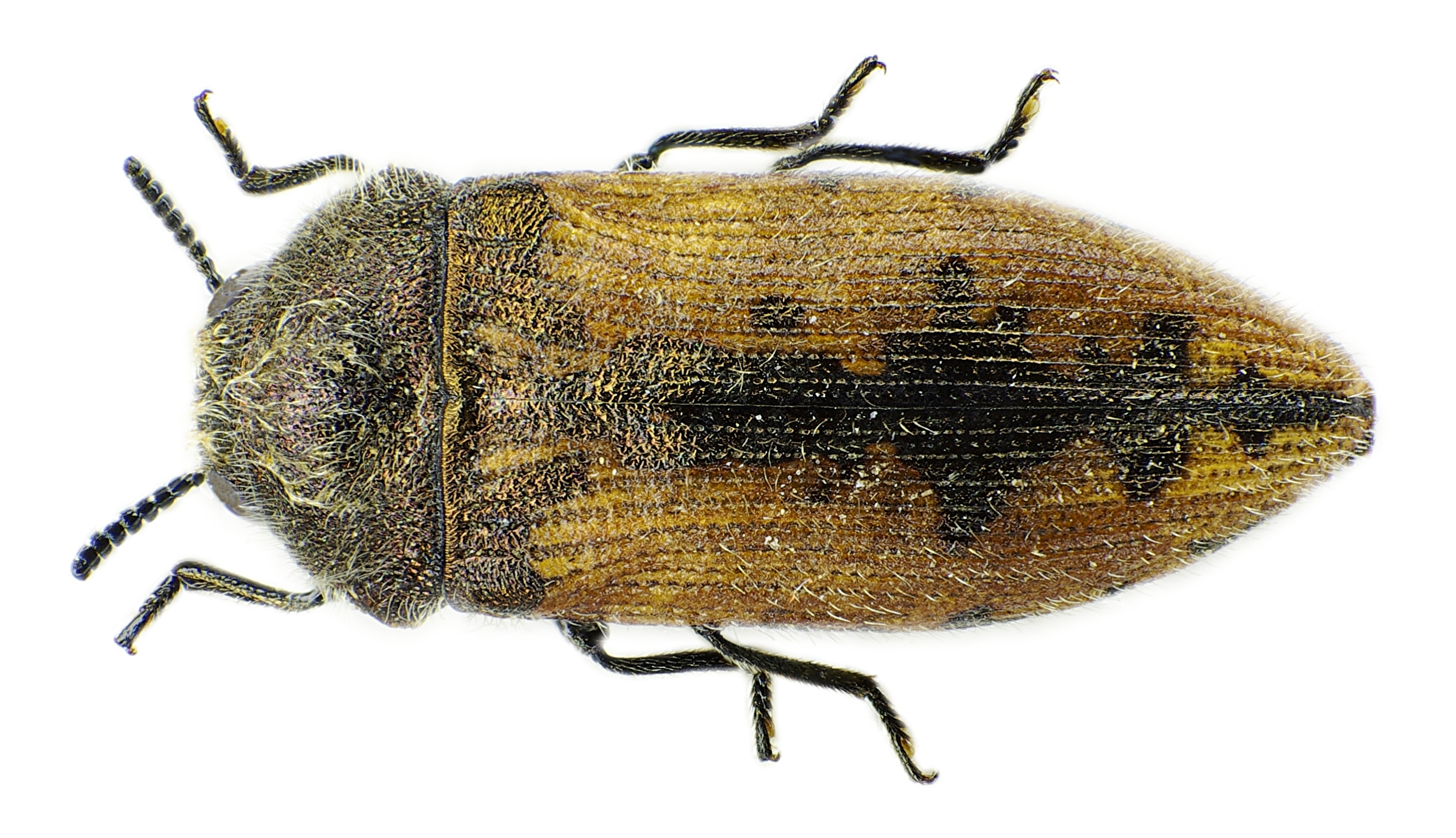 Acmaeodera pilosellae from Greece